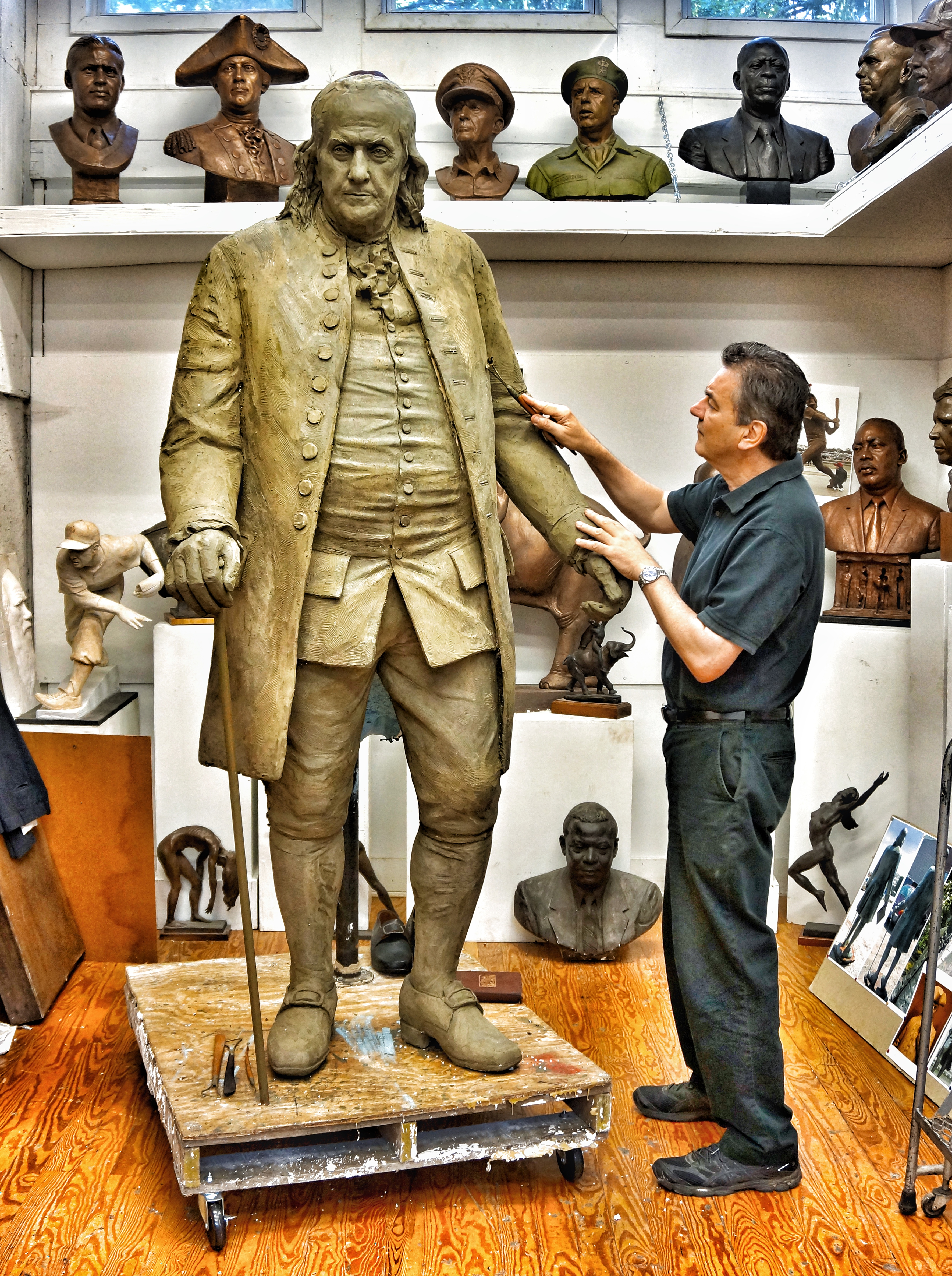 Zenos Frudakis working on sculpture of Benjamin Franklin in his studio.